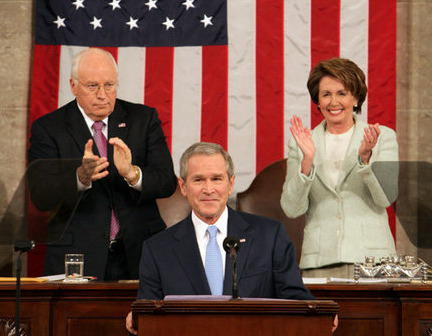 President George W. Bush receives applause while delivering the State of the Union address at the U.S. Capitol, Tuesday, Jan. 23, 2007. Also pictured are Vice President Dick Cheney and Speaker of the House Nancy Pelosi